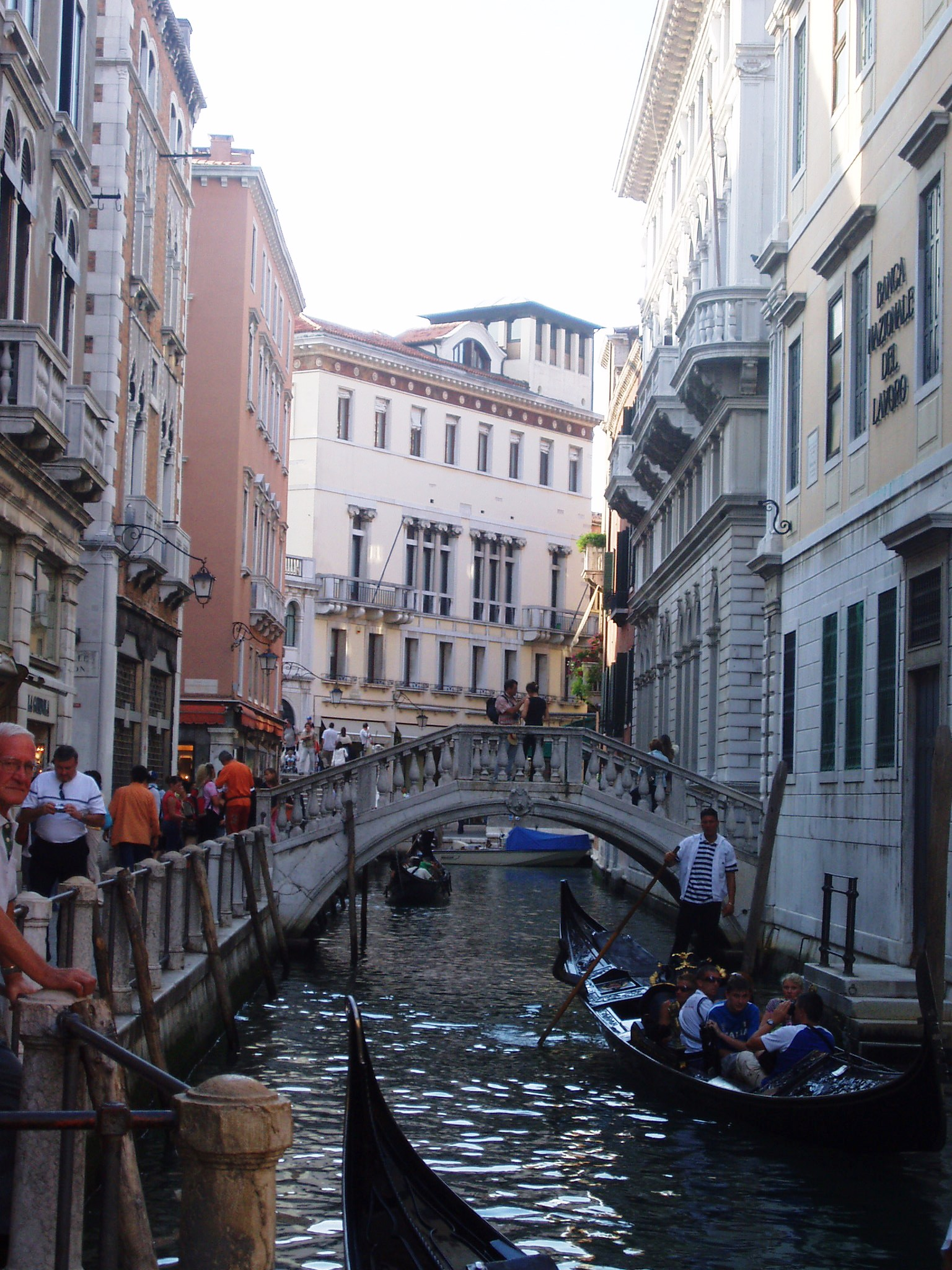 rio orseolo venice